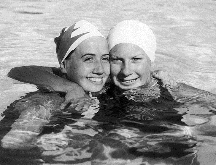 At the Olympic Games of Los Angeles, U.S.A, the American Helen MADISON from Seattle (on right) beat her own record in the 400m freestyle swimming event with a time of 5 minutes and 28.5 seconds, which was 2.5 seconds faster than her last performance. Beside her, the American swimmer Lenore KIGHT finished second, coming in one second after Helen MADISON.